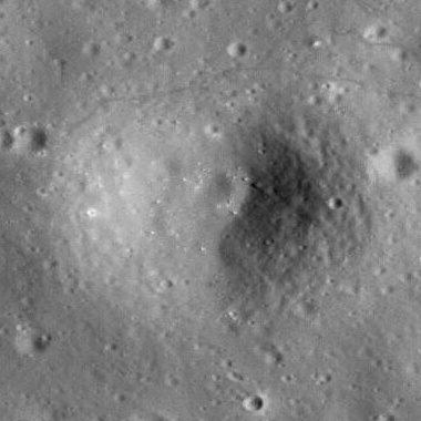 Head crater, Mare Cognitum, on the moon. Note the tracks of the astronauts of Apollo 12 visible across the north side of the crater.